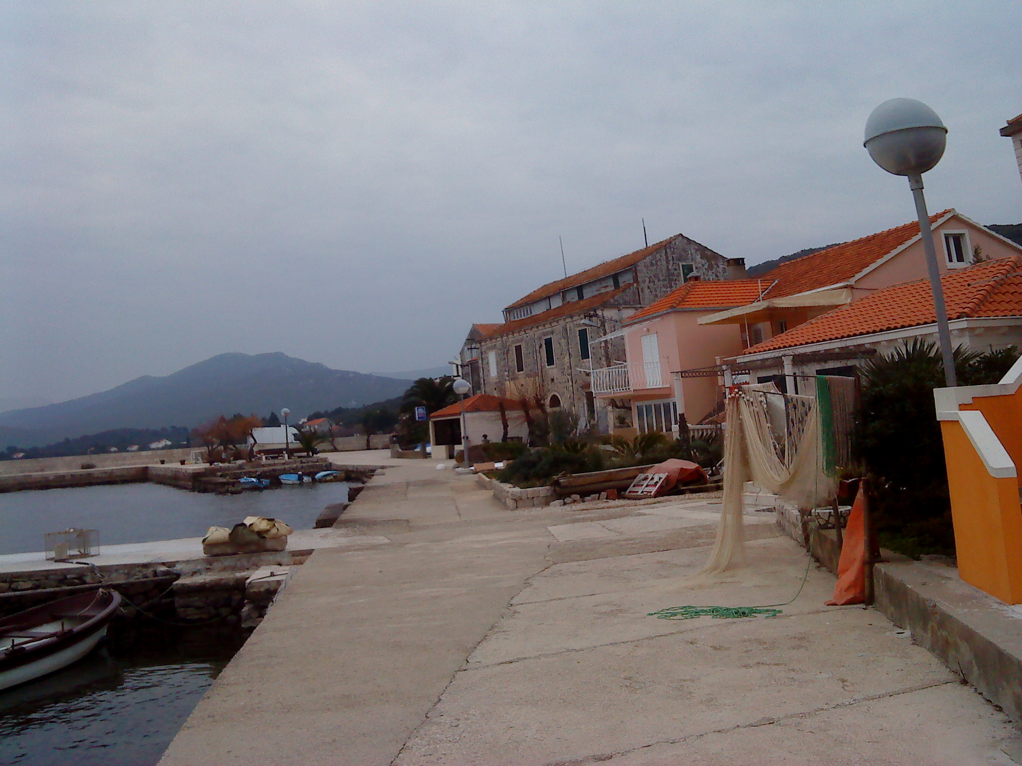 Marina in Drače